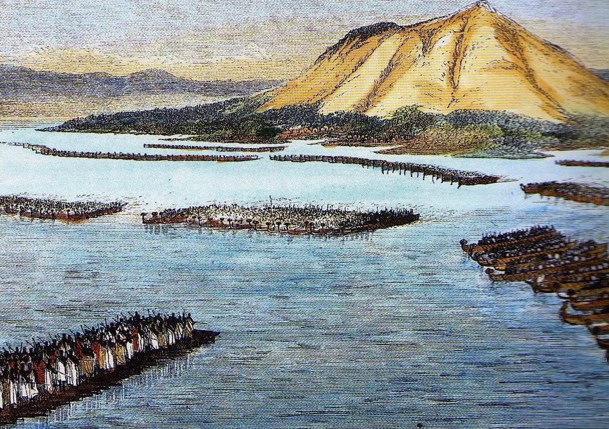 Print of 1878 edited in the book of Henry Morton Stanley (1841-1904) Through the Dark Continent (London 1878) depicting a naval battle on the Victoria lake in 1875, beetween the Vaganda and the Vovuma.